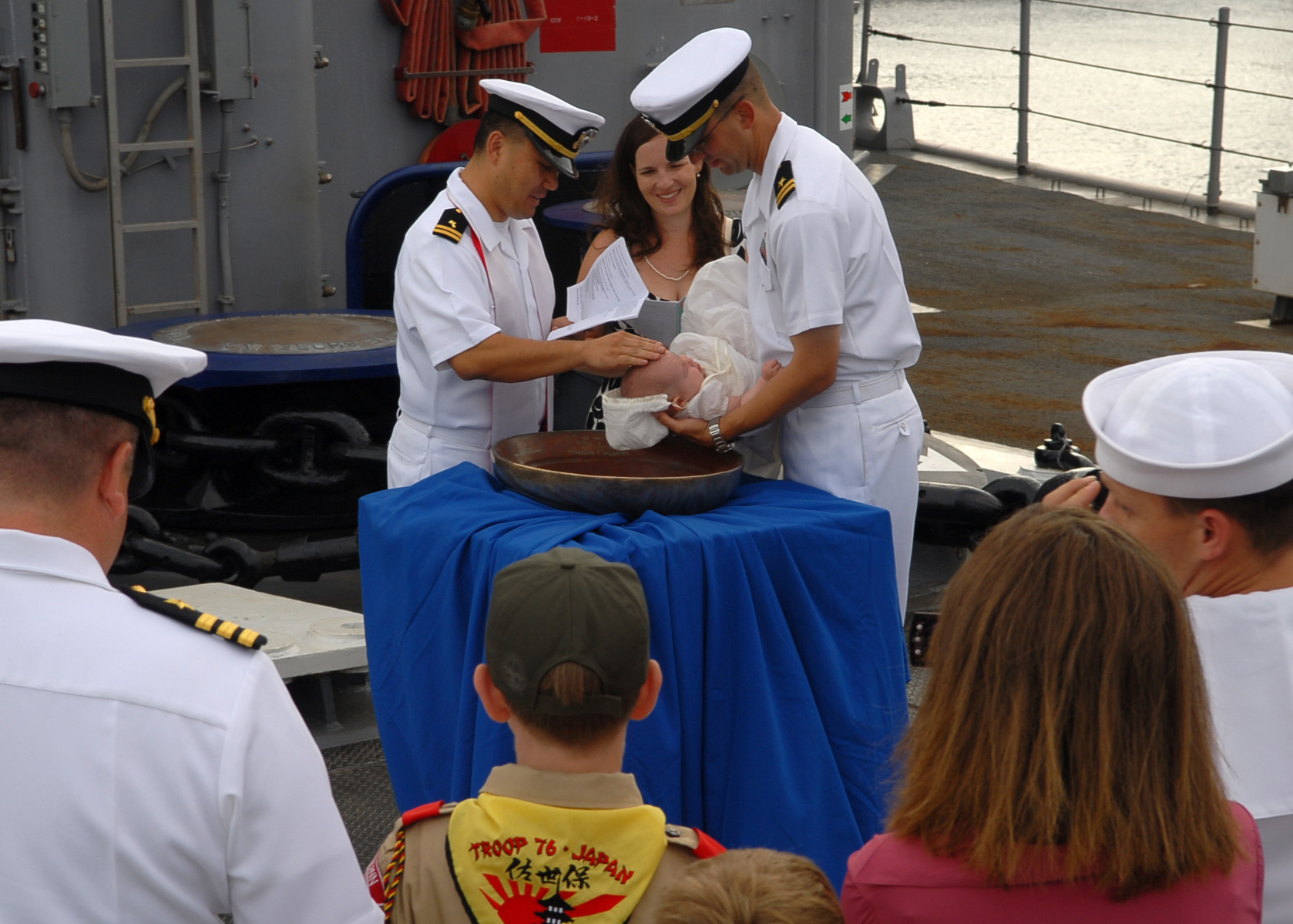 SASEBO, Japan (Sept. 17, 2009) Lt. John Madea holds his daughter as she is baptized with holy water from the ship's bell of the amphibious dock landing ship USS Tortuga (LSD 46). This is the fourth person baptized aboard Tortuga since the ship's christening in 1988, and her name will be inscribed inside the bell as a tradition of the U.S. Navy. (U.S. Navy photo by Mass Communication Specialist 1st Class Geronimo Aquino/Released)